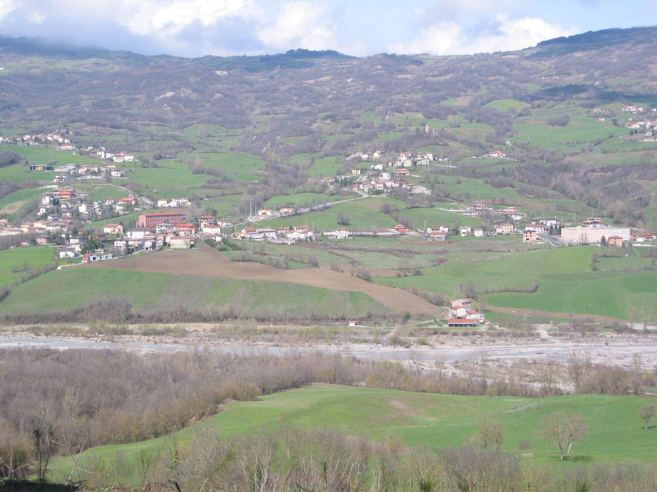 View of the village of Beduzzo (Corniglio; Parma, Italy)